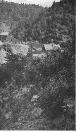 Mill and cyanide plant of the Champion-Providence Group. Photo by C. A. Logan.